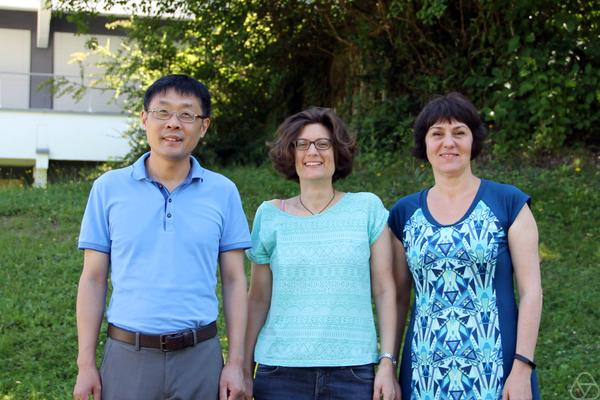 Description at MFO: On the Photo: * Zhou, Huibin (left) * Rohde, Angelika (middle) * Bunea, Florentina (right) * Occasion:Matrix Estimation Meets Statistical Network Analysis: Extracting low-dimensional structures in high dimension * Annotation: organizers * Location: Oberwolfach * Author: Lein, Petra (photos provided by Lein, Petra) * Source: MFO * Year: 2018 * Copyright: MFO * Photo ID: 22546